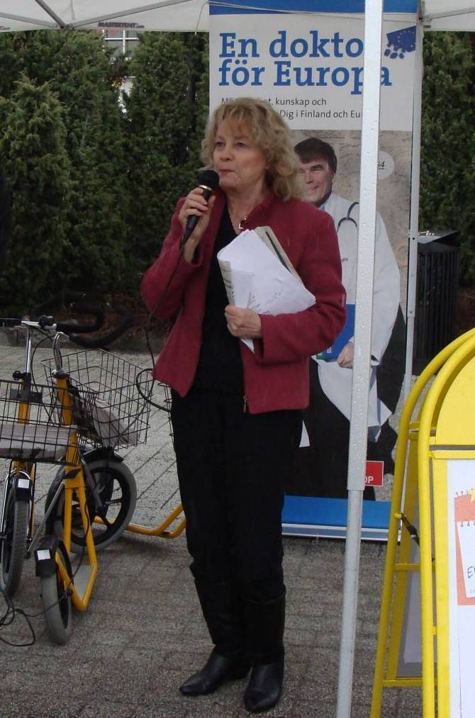 Politician Terttu Savola (Köyhien asialla) speaking in Espoonlahti in 9.5.2009